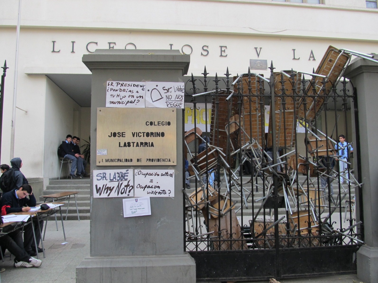 Toma en el Liceo José Victorino Lastarria, Santiago.